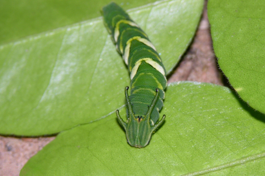 Common NawabPolyura athamas caterpillar